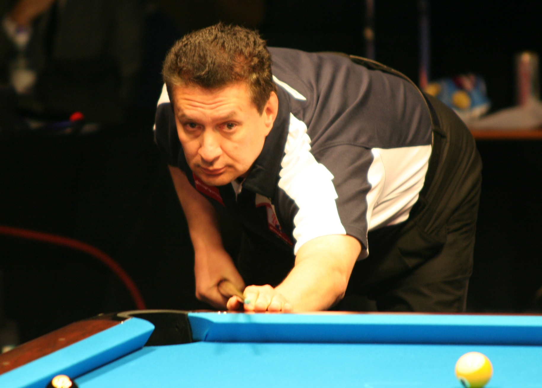 Malta's pool player Tony Drago at the 2008 Mosconi Cup in Malta.